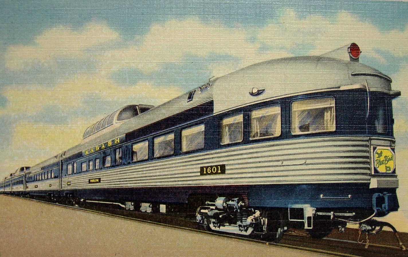 Postcard photo of the Wabash streamliner, The Blue Bird. The train traveled between Chicago and St. Louis.